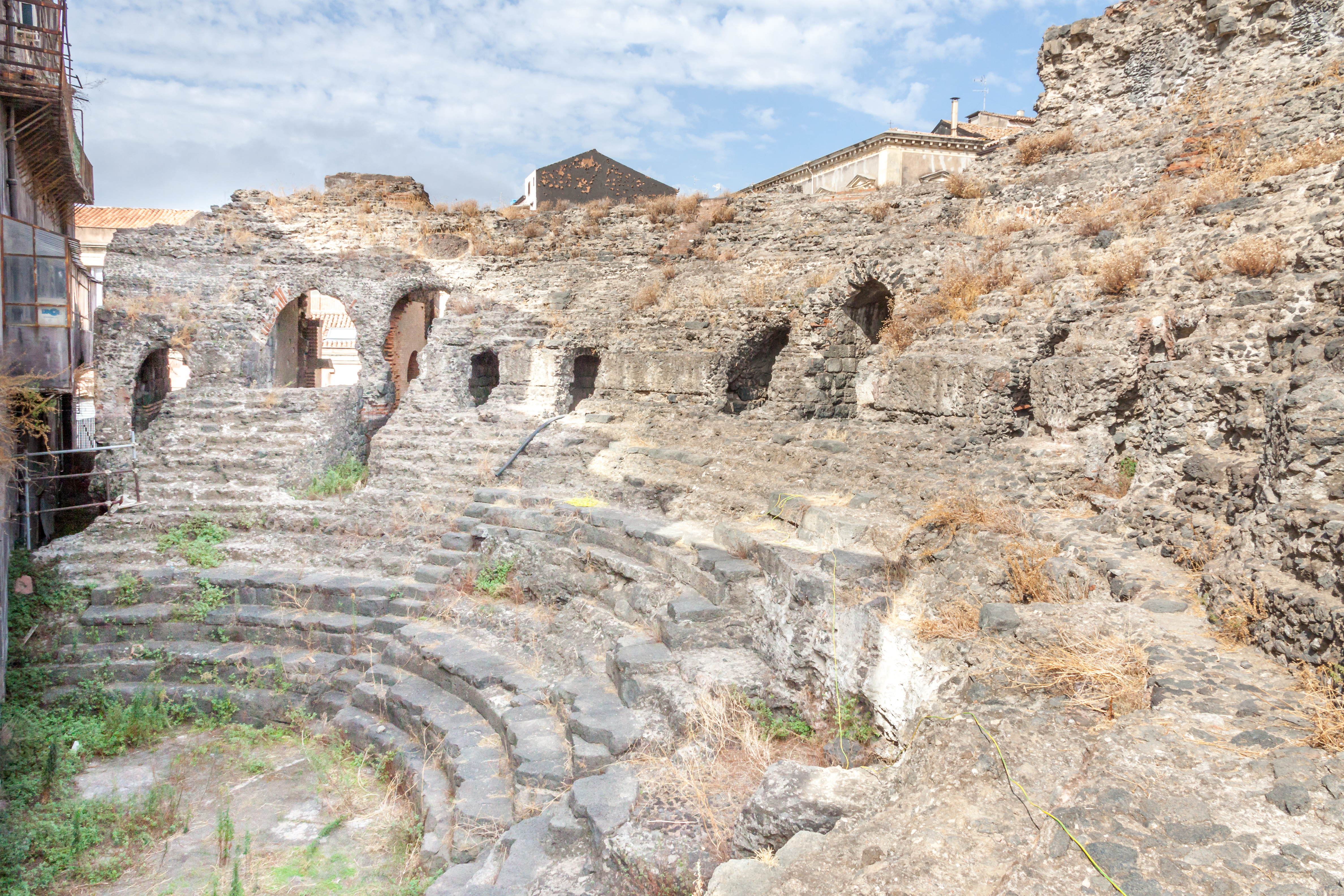 Odeon, Catania, Italia